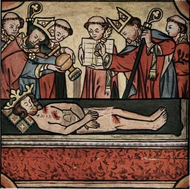 The burial of Saint Olaf. Detail from the 14th century, from Trøndelag.